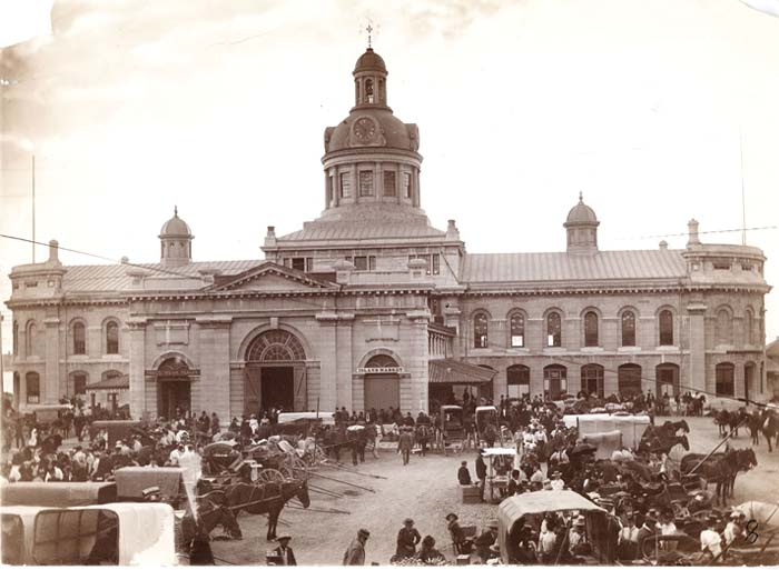 View of Kingston Market Square with horses and wagons and the King Street side of Kingston City Hall, ca. 1900.